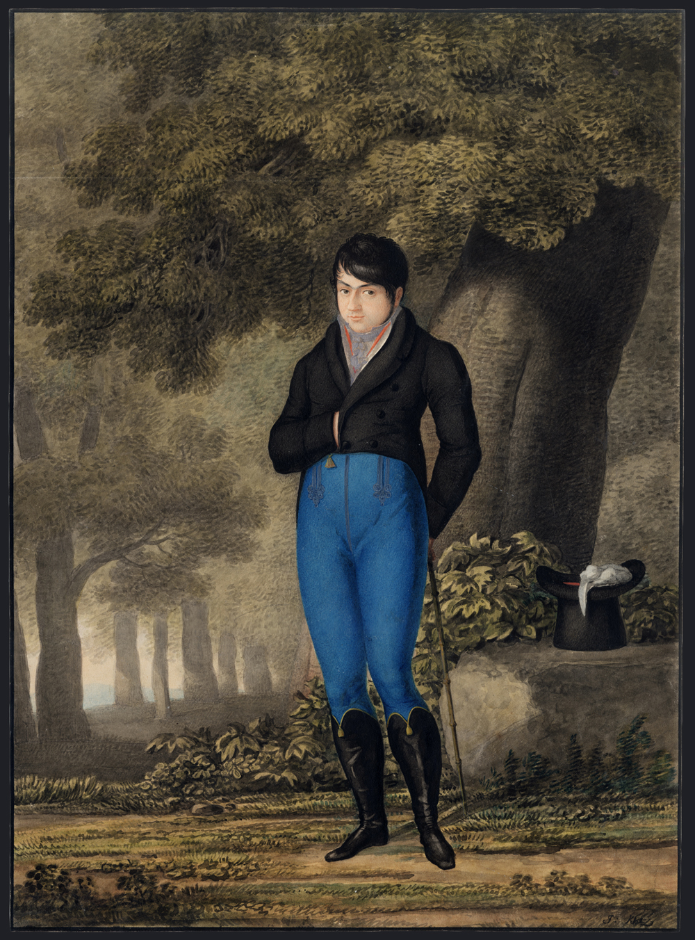 Portrait of a young Gentleman